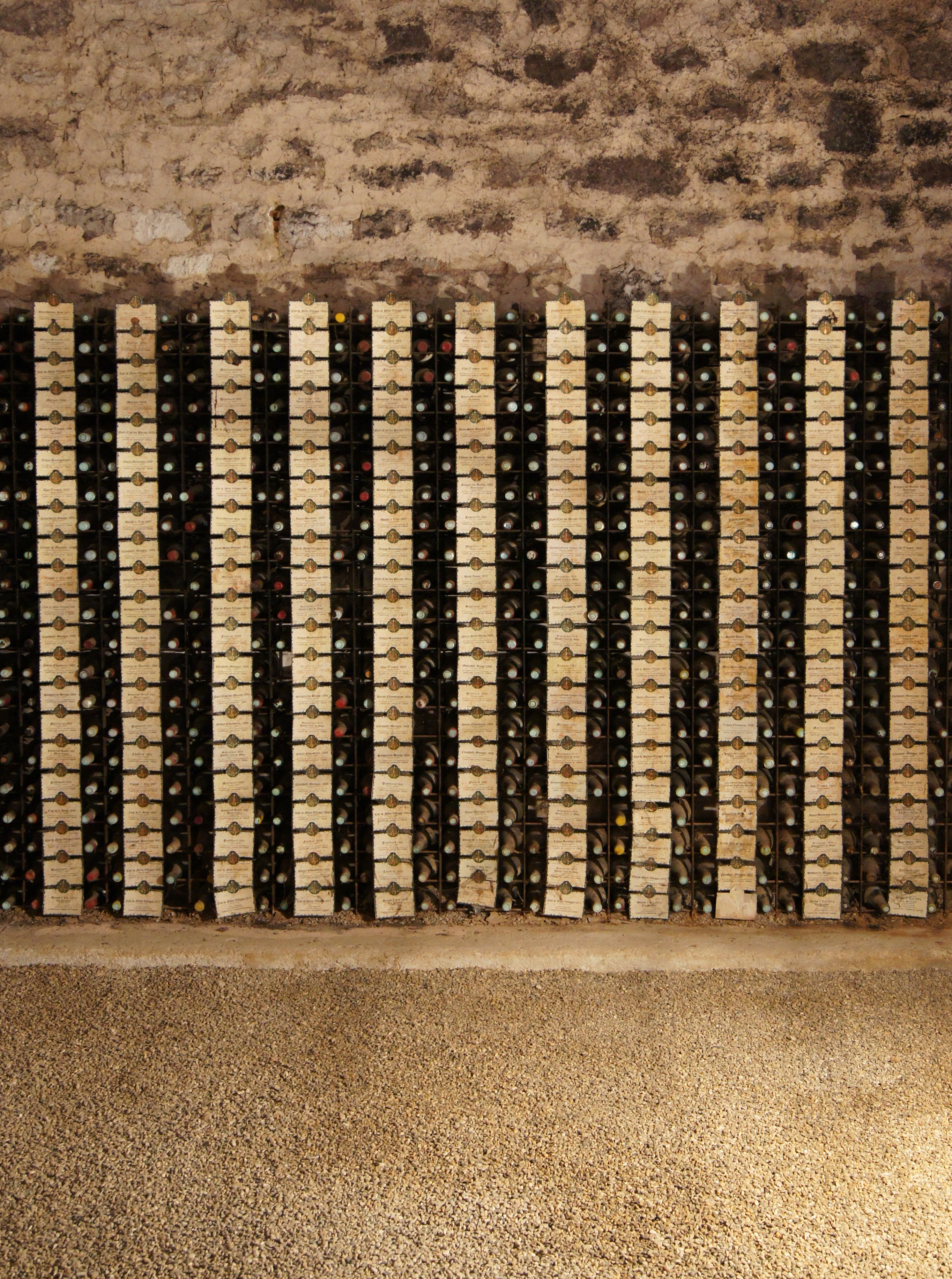 part of the collection of all awarded very famous wines of Bourgogne (Burgundy) by the Confrérie des Chevaliers du Tastevin in a cellar of Château du Clos de Vougeot, Vougeot, France